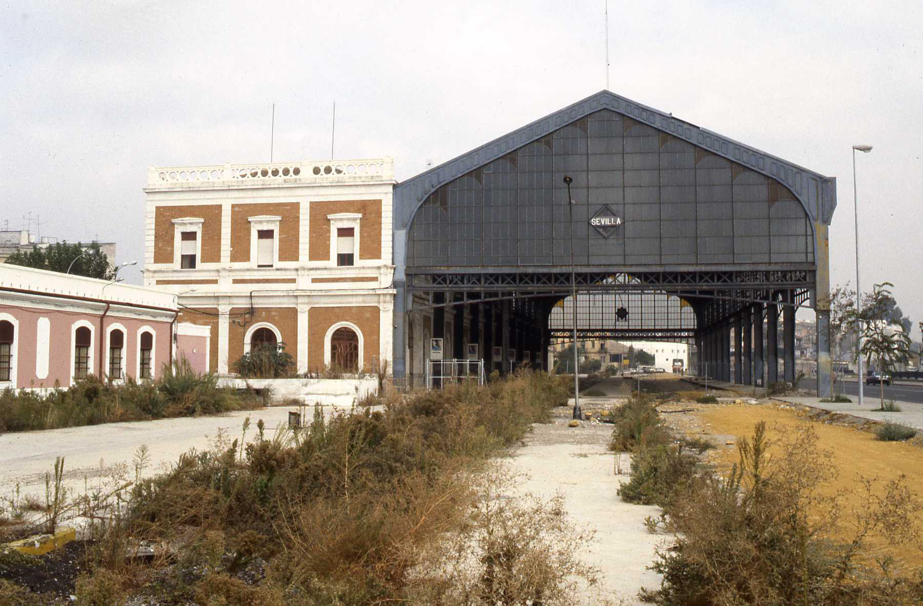 Old San Bernardo's Station, in Seville. It is now replaced with a modern station close by.